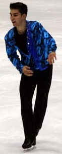 2007 Junior Grand Prix Lake Placid - Jessica Rose Paetsch and Jon Nuss